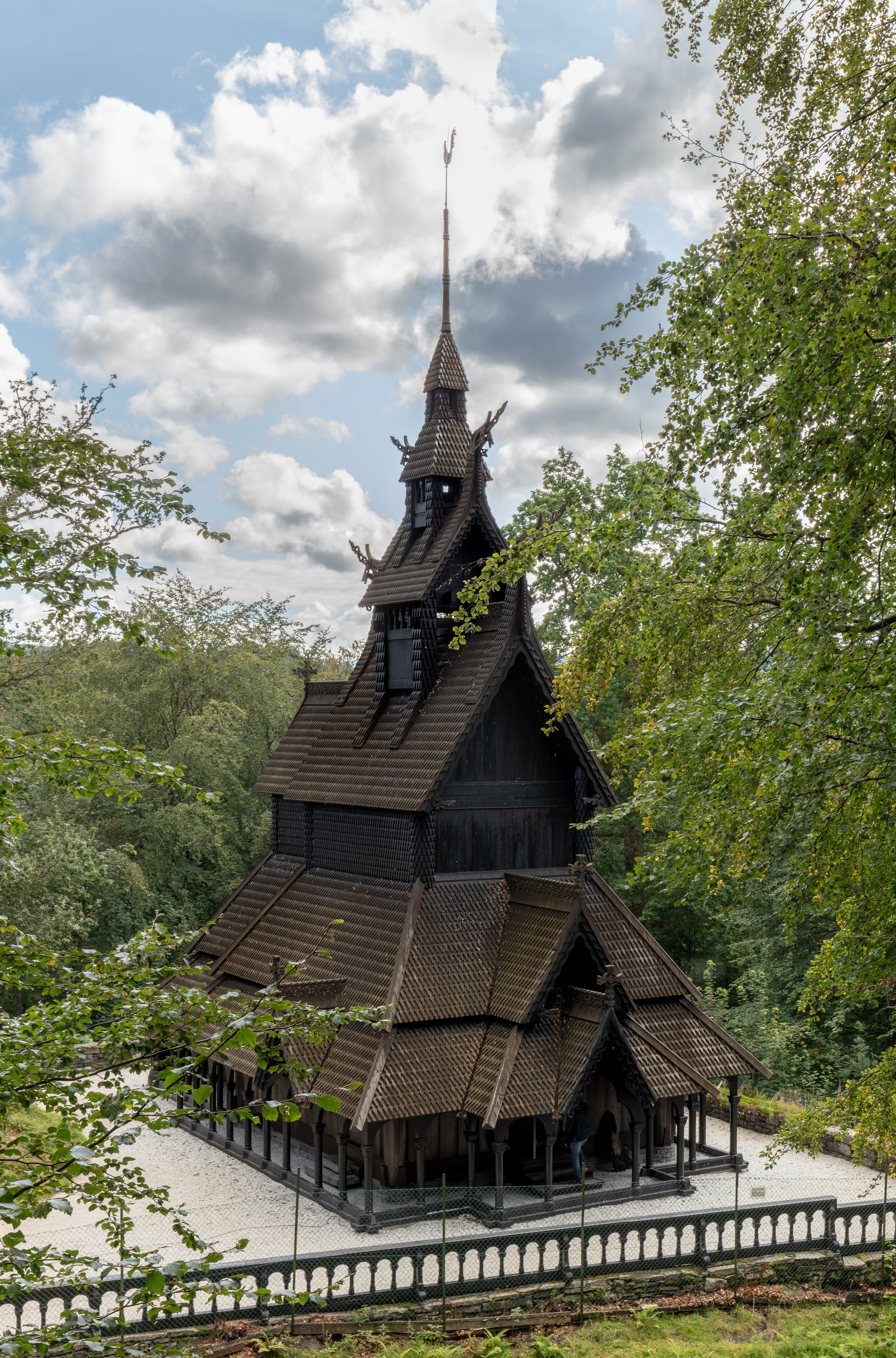 Fantoft stavkirke, Bergen, Norway